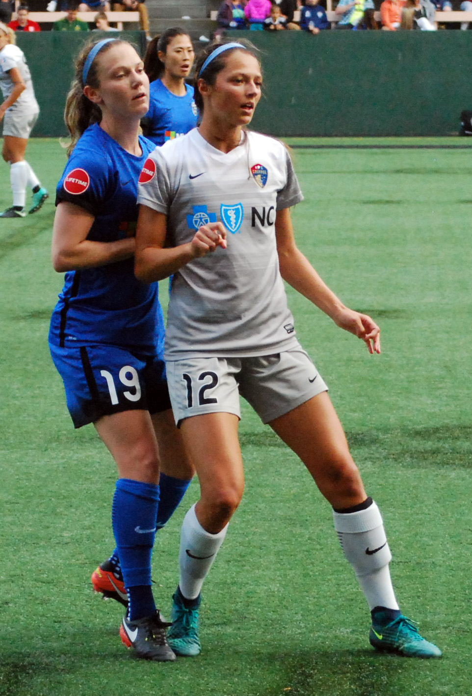 Kristen McNabb (left) and Ashley Hatch (right) during a match between Seattle Reign FC and the North Carolina Courage on August 13, 2017 at Memorial Stadium in Seattle.